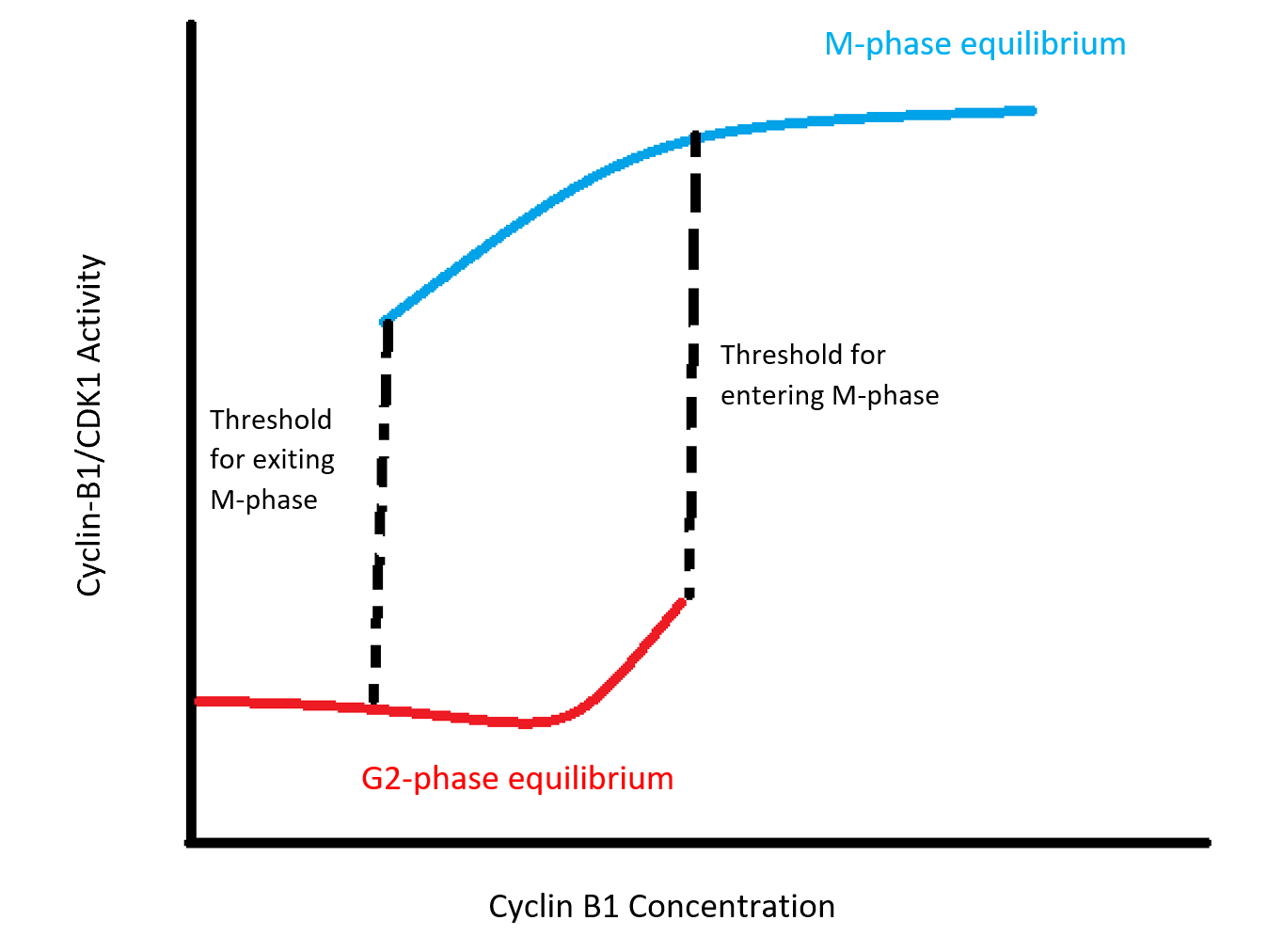 This graph illustrates the bistable/hysteretic properties of the G2/M transition